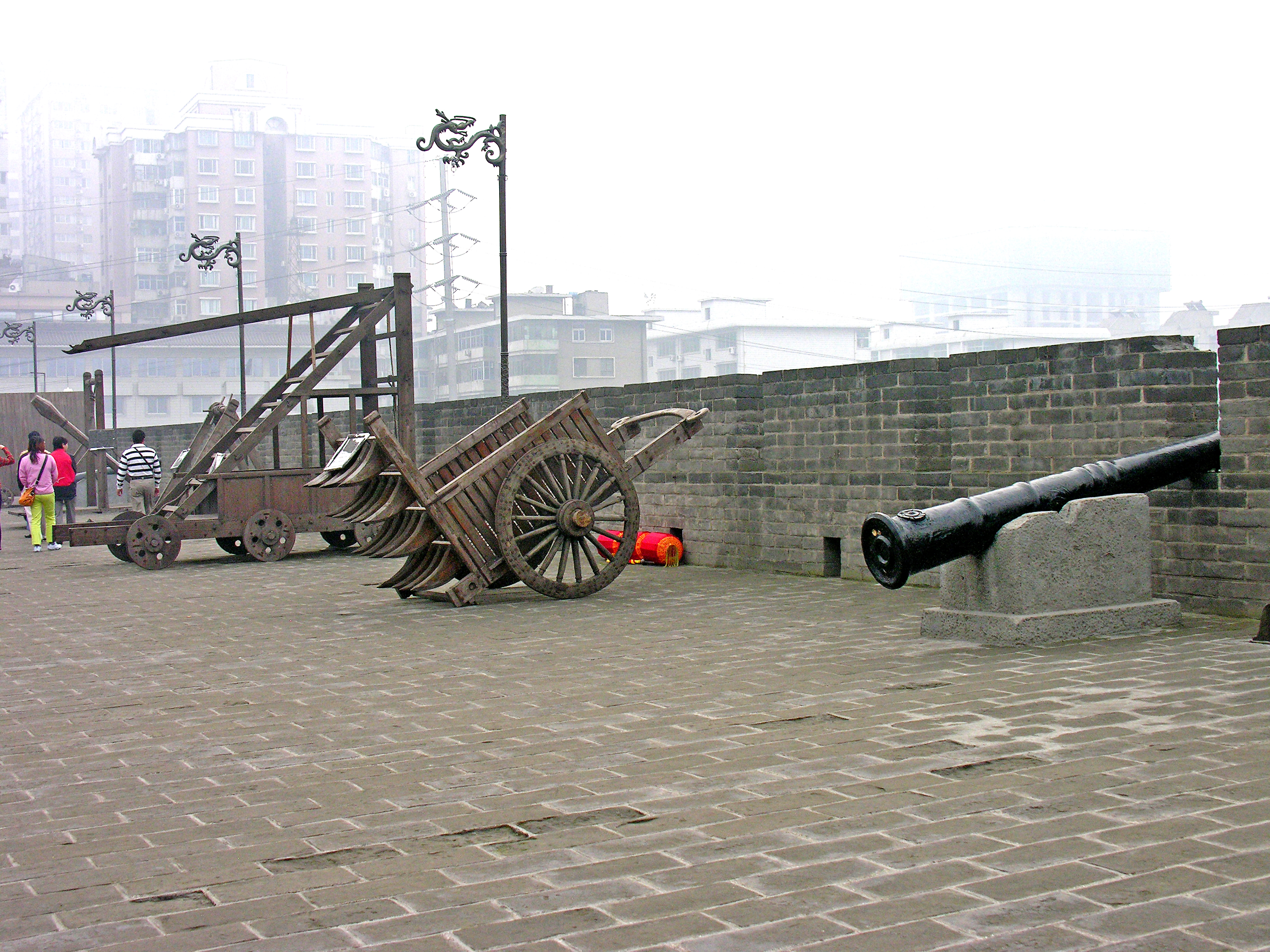 Examples old siege equipment were on this part of the wall.